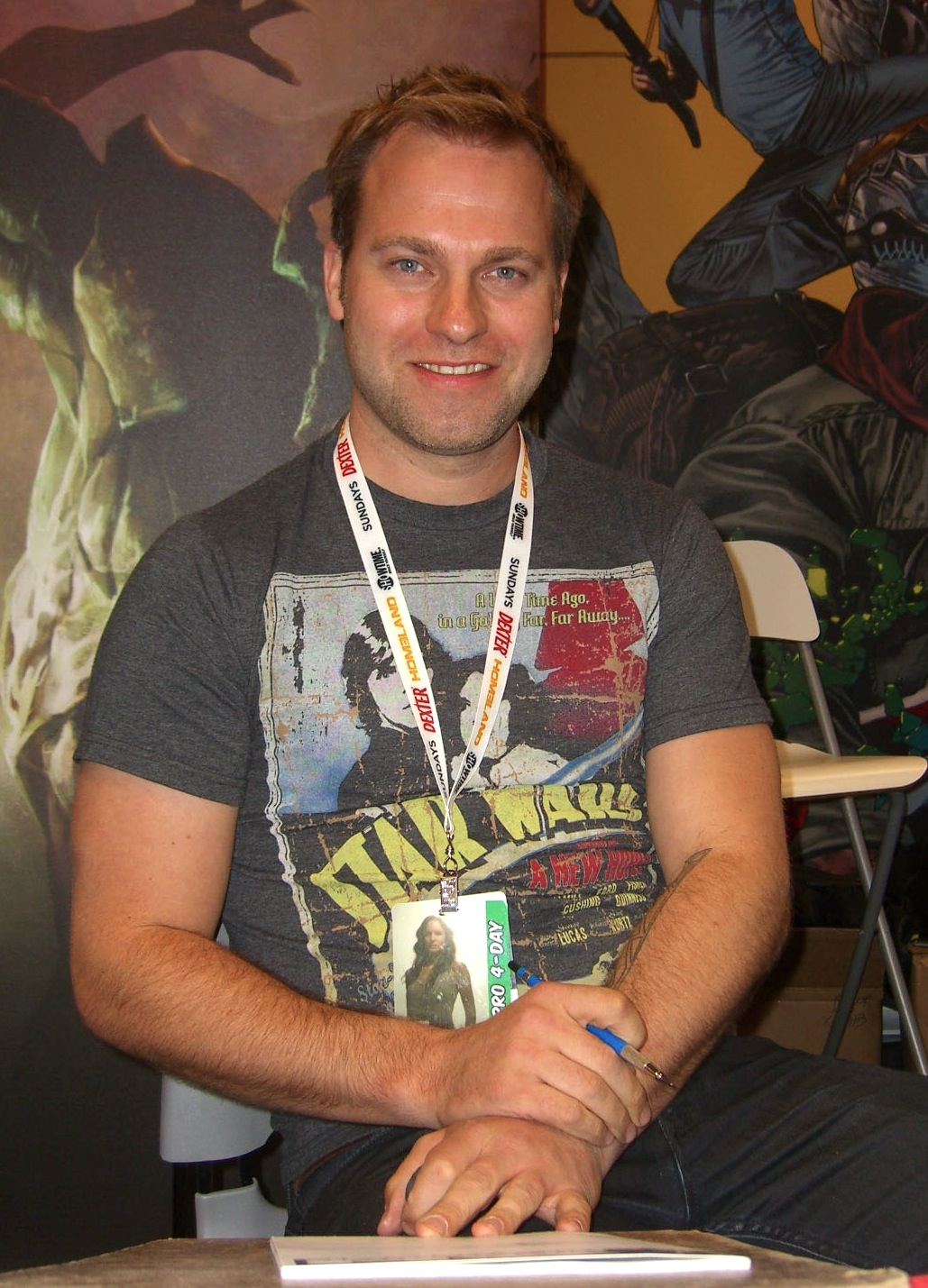 Comics creator Cary Nord on Day 4 of the 2012 New York Comic Con, Sunday October 14, 2012 at the Jacob K. Javits Convention Center in Manhattan. This photo was created by Luigi Novi. It is not in the public domain, and use of this file outside of the licensing terms is a copyright violation.